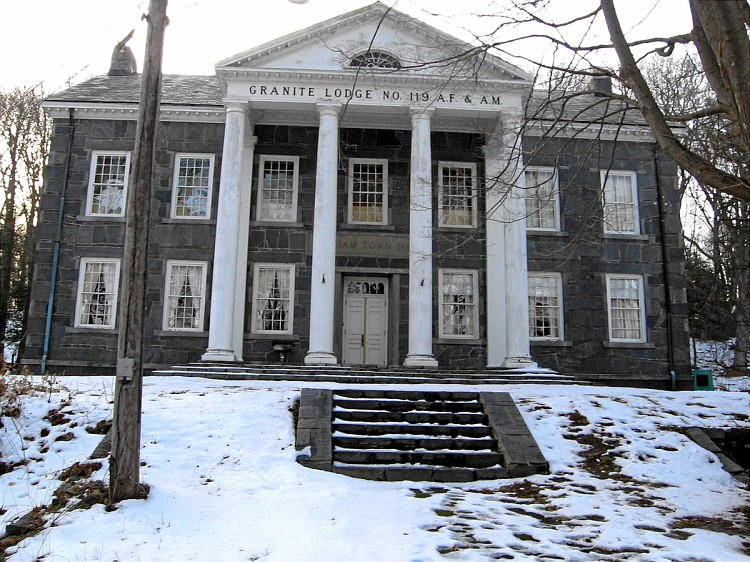 The former town hall building in Haddam, Connecticut; part of the Haddam Center Historic District.